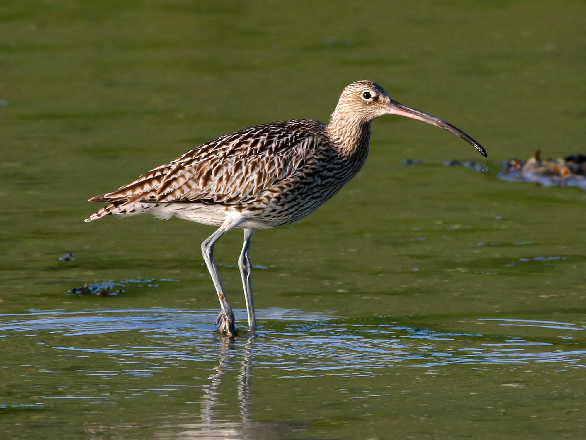 Curlew (Numenius arquata)Photo taken at Brow Head, Co. Cork, Republic of Ireland